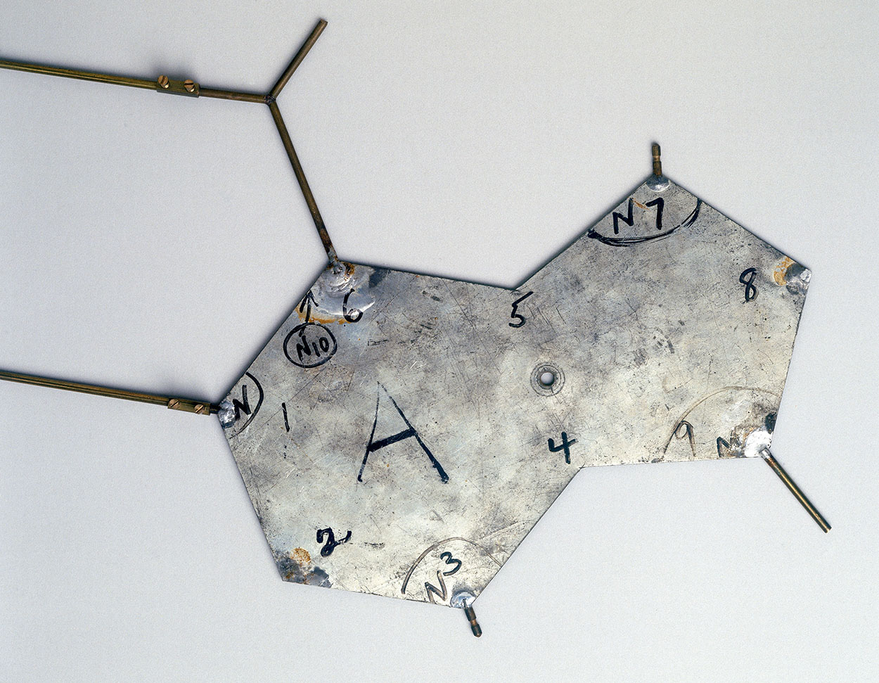 This aluminium template representing the base thymine (T) is part of Crick and Watson’s model of DNA. Bases are those groups of atoms that make up DNA's twin strands. The bases in each of the strands combines to spell out the organism's genetic code. This structure of DNA was discovered by Francis Crick (b 1916) and James Dewey Watson (b 1928) whilst working in the Medical Research Council Unit at the Cavendish Laboratory in Cambridge and after having seen X-ray diffraction pattern photographs of DNA by Rosalind Franklin. In 1953 Watson and Crick constructed a molecular model of the complex genetic material deoxyribonucleic acid (DNA). Their analysis of the double helix shape of DNA explained how genetic information could be copied and passed from one generation to the next. They were awarded the Nobel Prize for medicine and physiology in 1962.